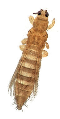 onion thrips (Thrips tabaci).